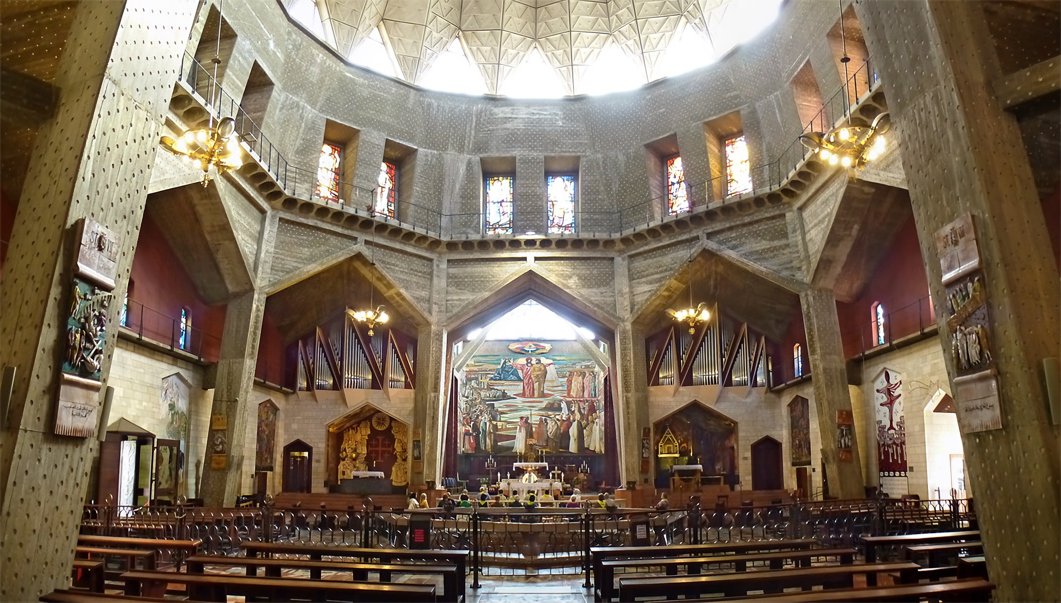 Upper church, Basilica of the Annunciation, Nazareth, Israel.